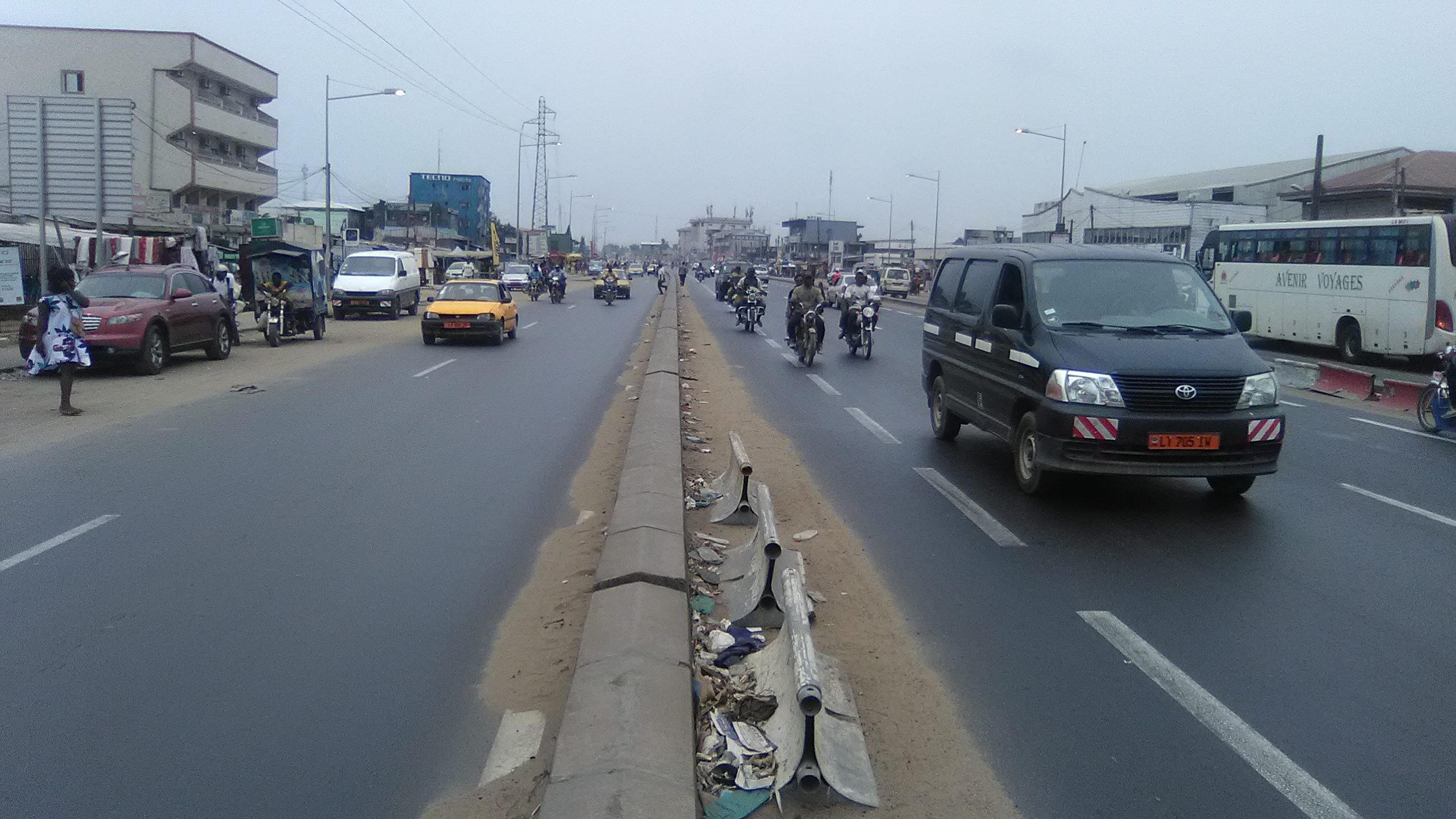 This is an image with the theme "Africa on the Move or Transport" from: Cameroon